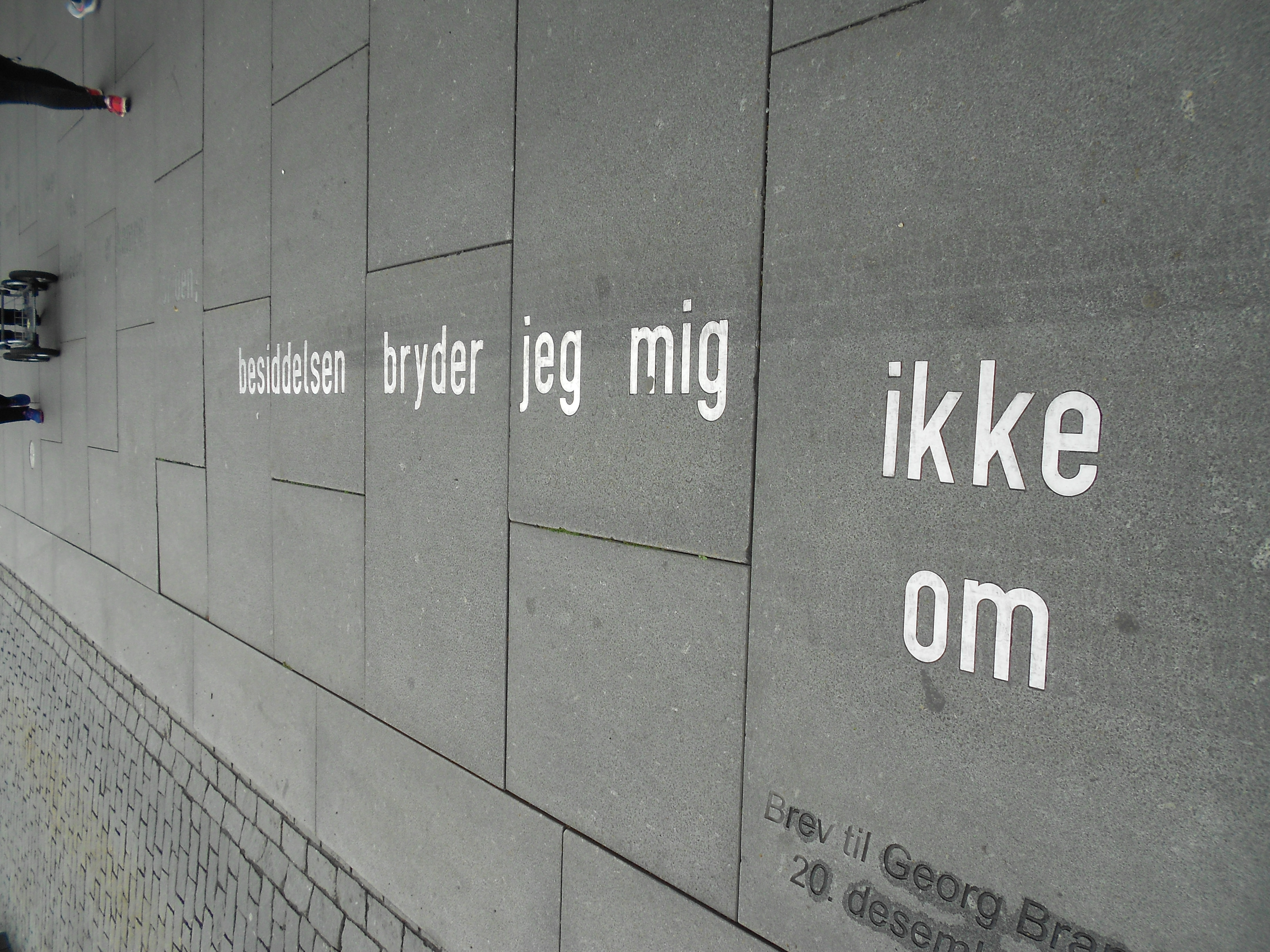 A small part of the artwork «Ibsen Sitat» or Ibsen Quotes, where 69 quotations from Henrik Ibsens's work are written on the pavements in downtown Oslo. Artists are the group FA+. This quotation is «Possessions, I don't care about» from «A letter to Georg Brandes» (1902).